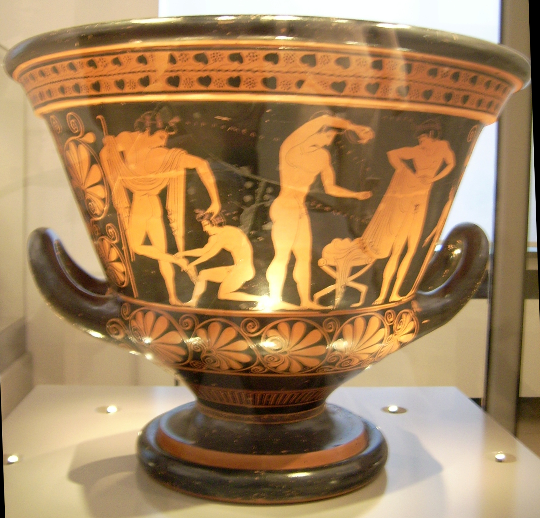 Studies of attitudes. Calyx-krater by Euphronios, Antikensammlung Berlin 2180. From Capua.